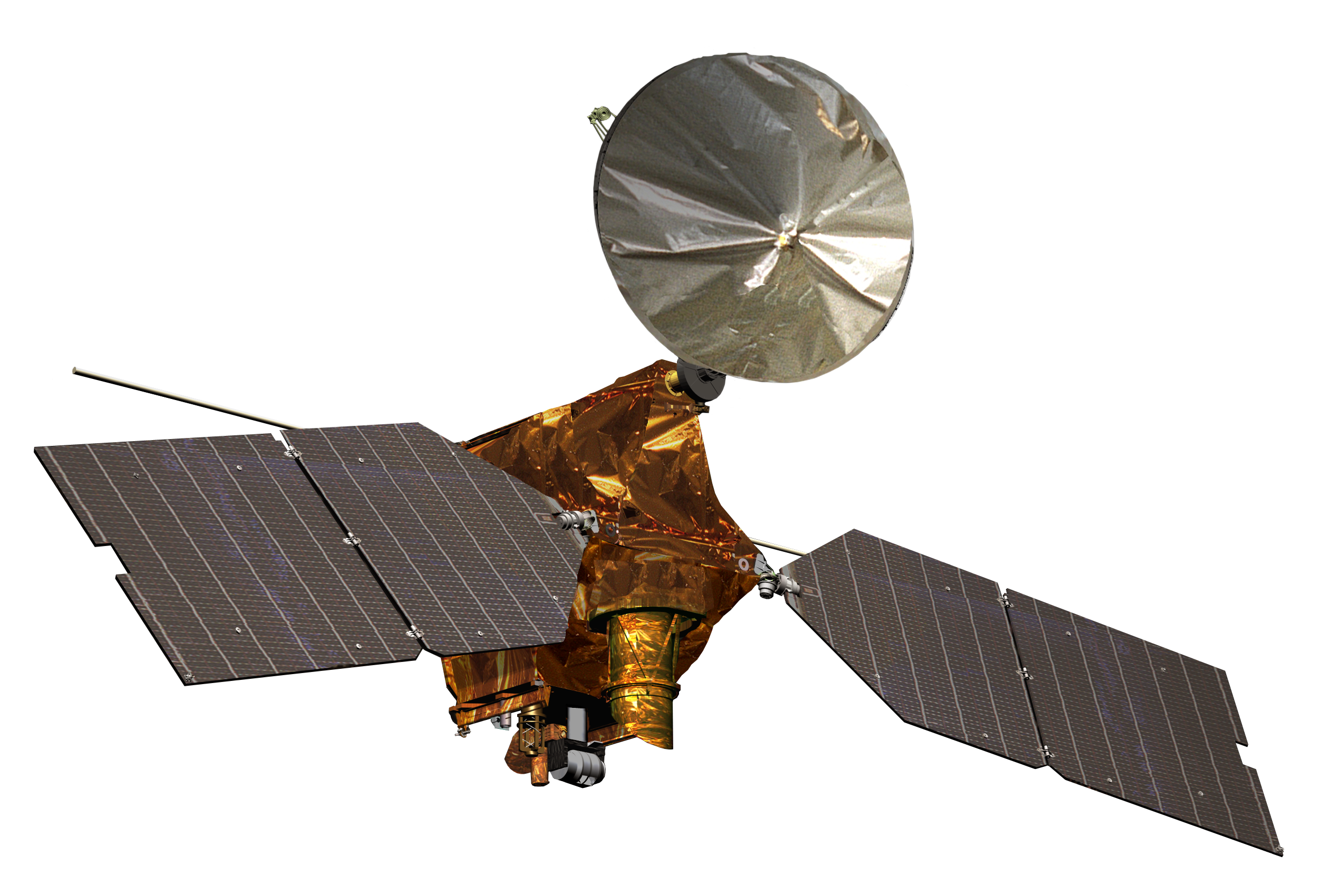 Artist's rendering, from NASA, of the Mars Reconnaissance Orbiter spacecraft, in mission configuration. The spacecraft spent its prime mission in orbit around Mars, with its main objectives concerning more detailed and specialised studies of the planet with a high resolution photographic instrument (HiRISE), and a suite of new-generation improvements upon instruments aboard predecessor missions such as 2001 Mars Odyssey.